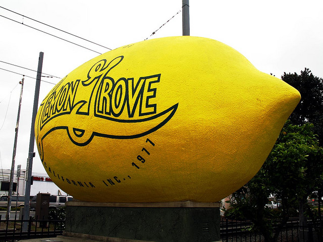 Giant Lemon monument in the center of Lemon Grove, California. Designed by Alberto O. Treganza.